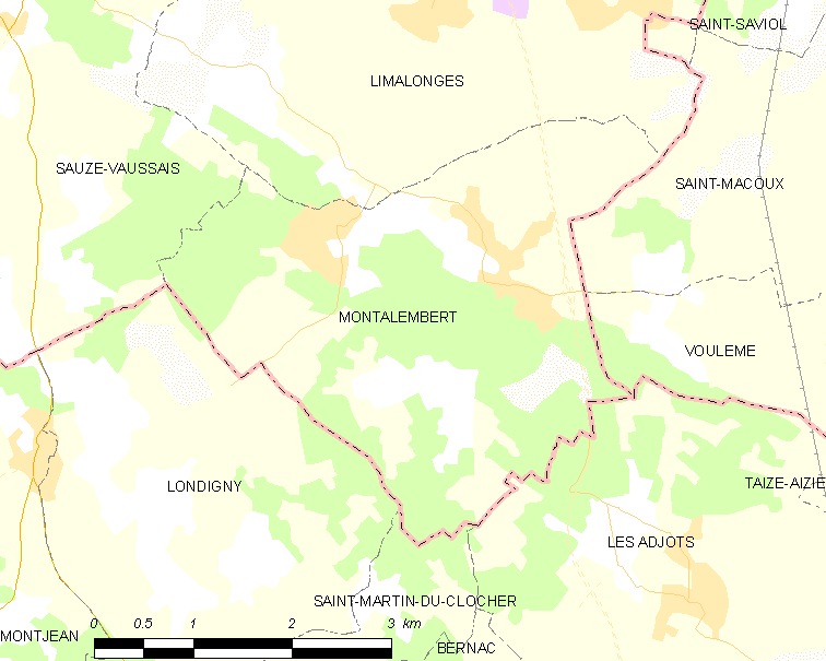 Map of French municipality Montalembert